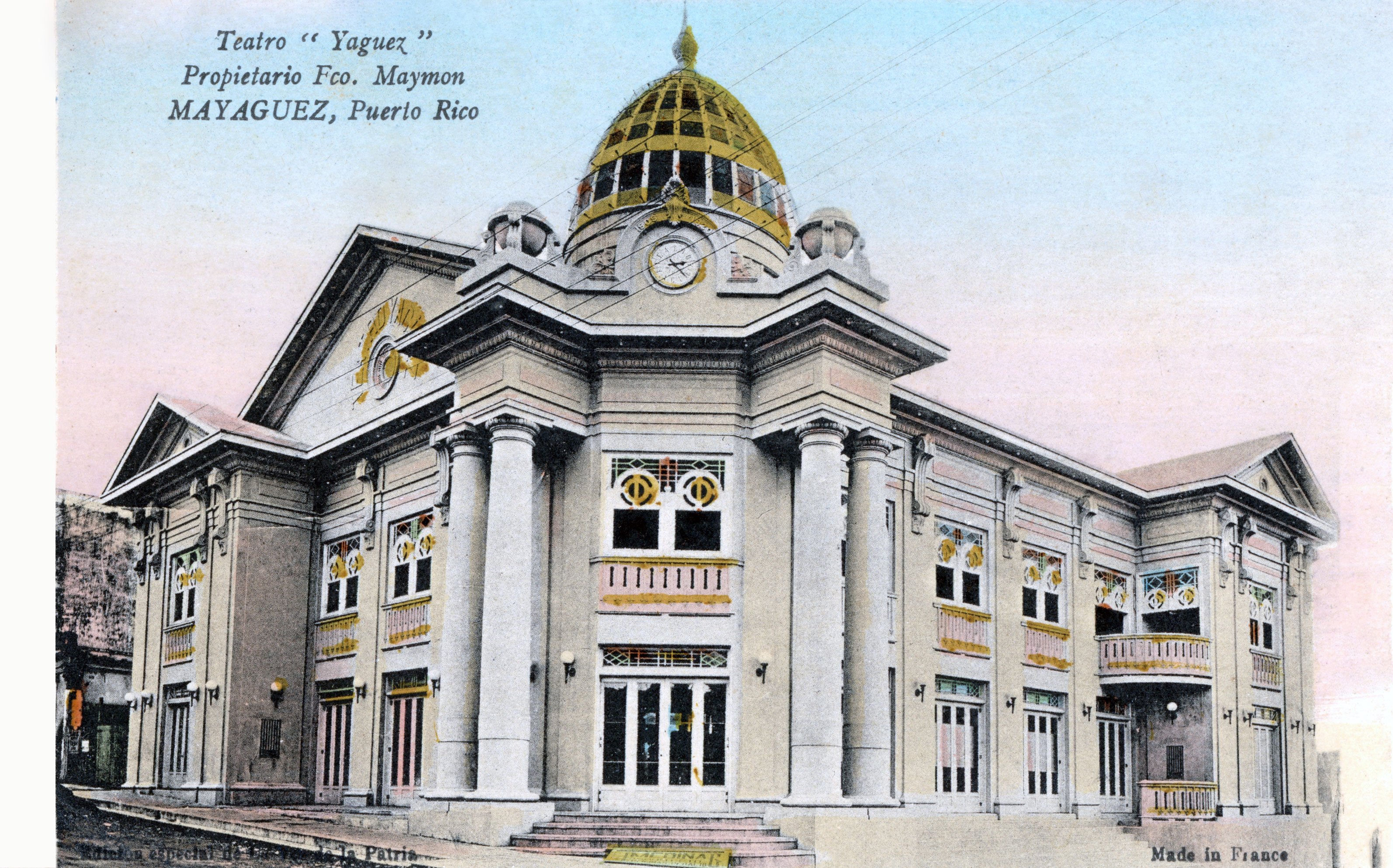 Teatro Yaguez postcard. Circa 1922. from the collection of Teatro Yaguez documents of the Maymon family. Our family name is printed on postcard face.